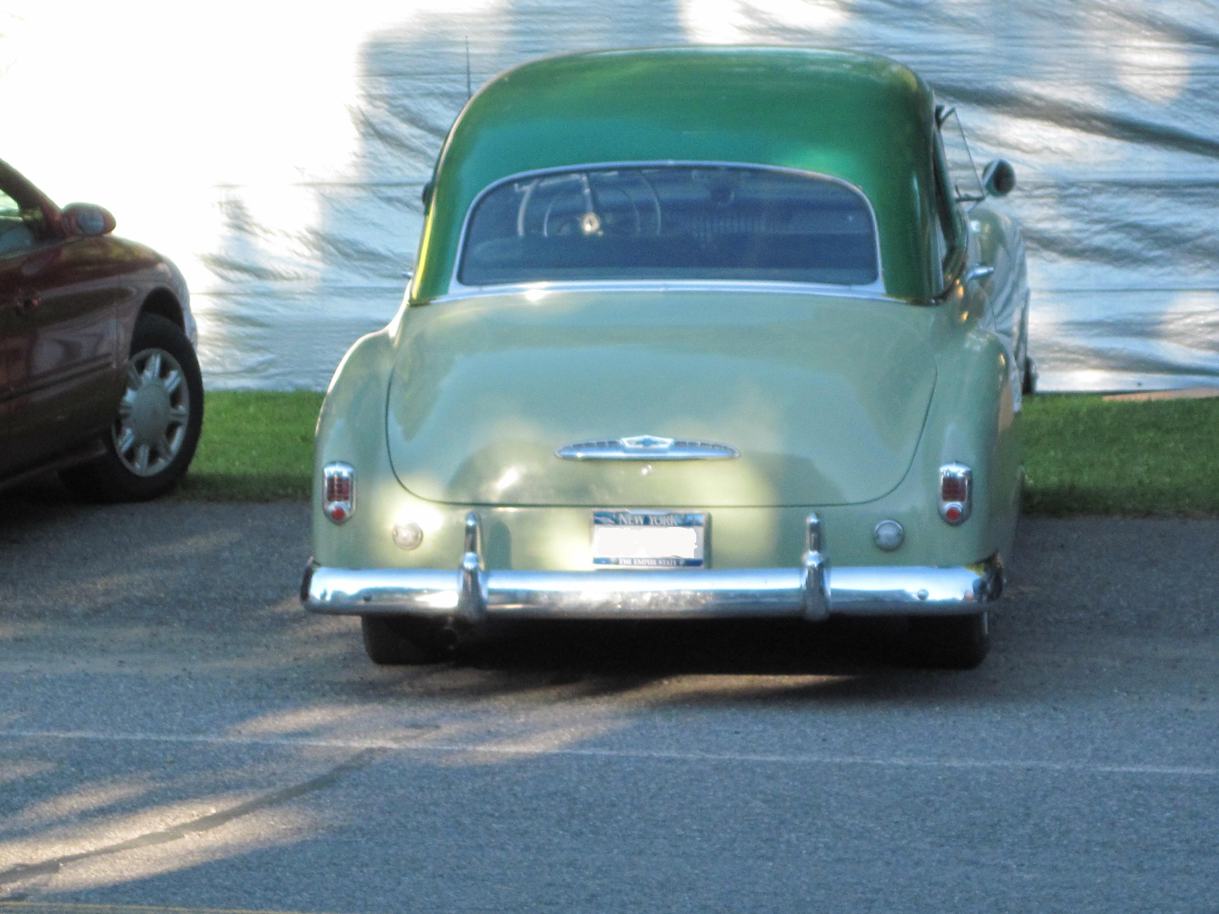 A Chevrolet Deluxe coupe (rear) photographed in Chautauqua County, NY.